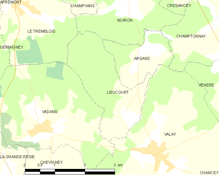 Map of French municipality